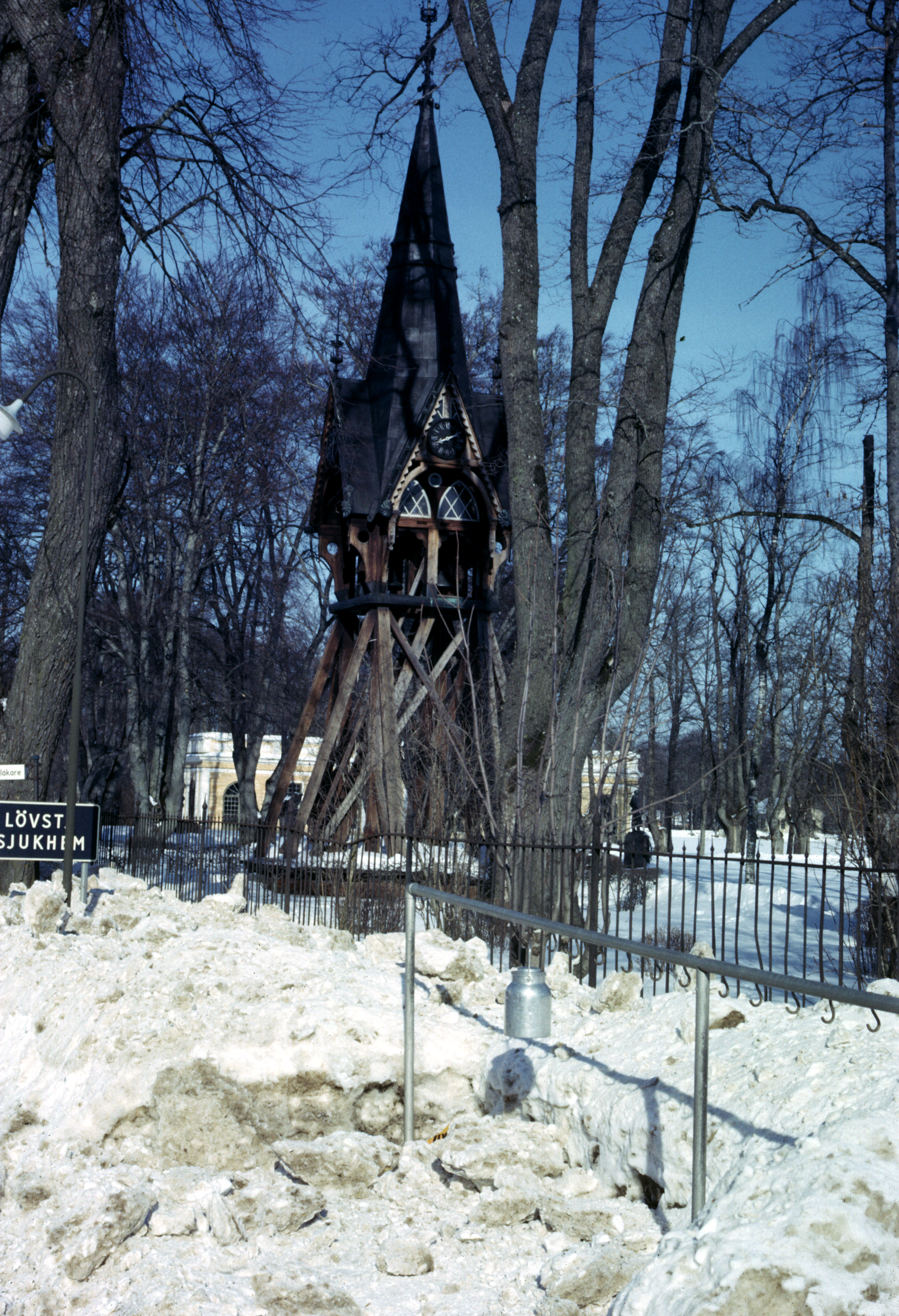 church belltower loustabruk